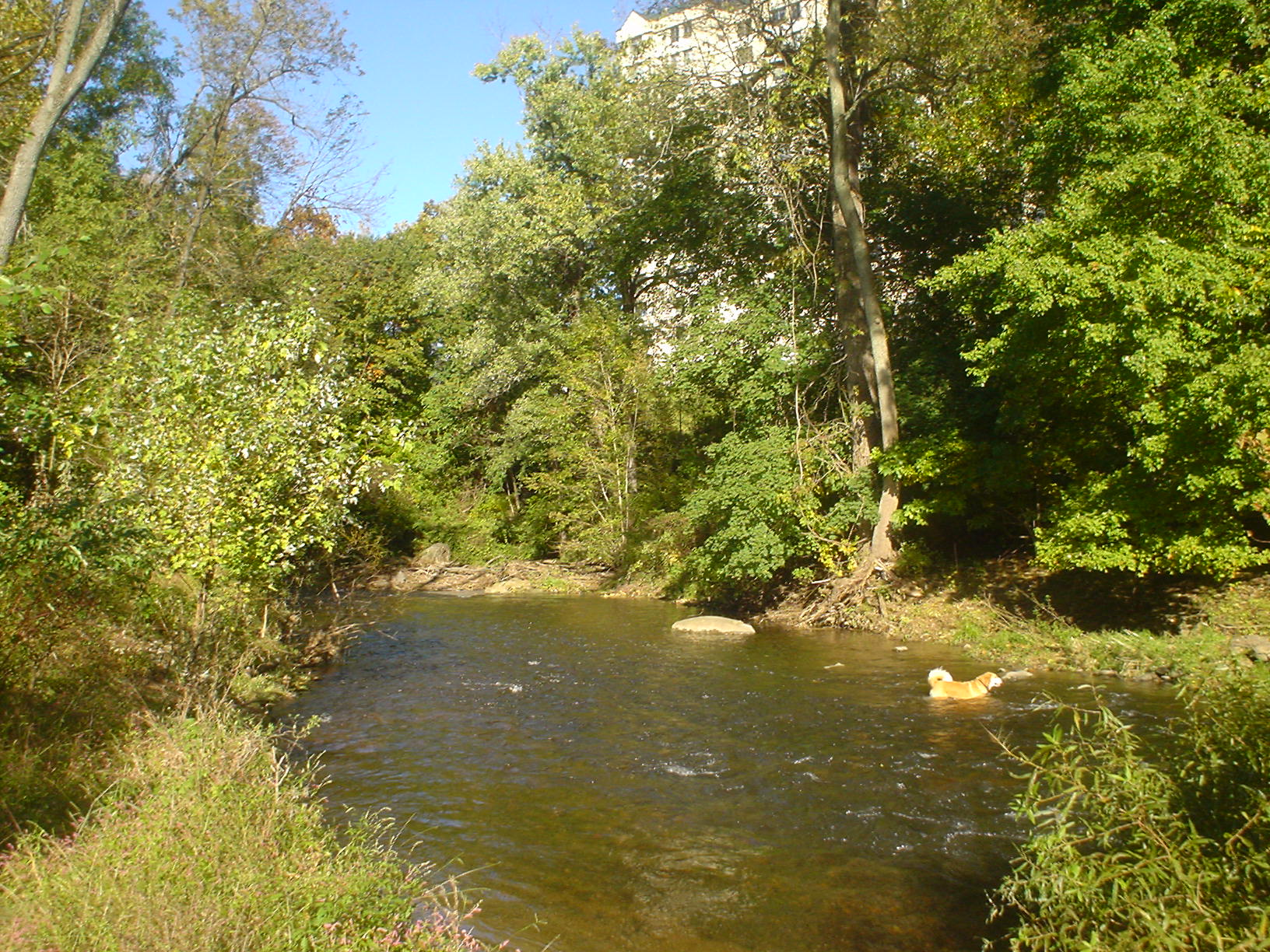 Ridley Creek in Taylor Arboretum, Wallingford, PA. My own work which I donate to the Public Domain.